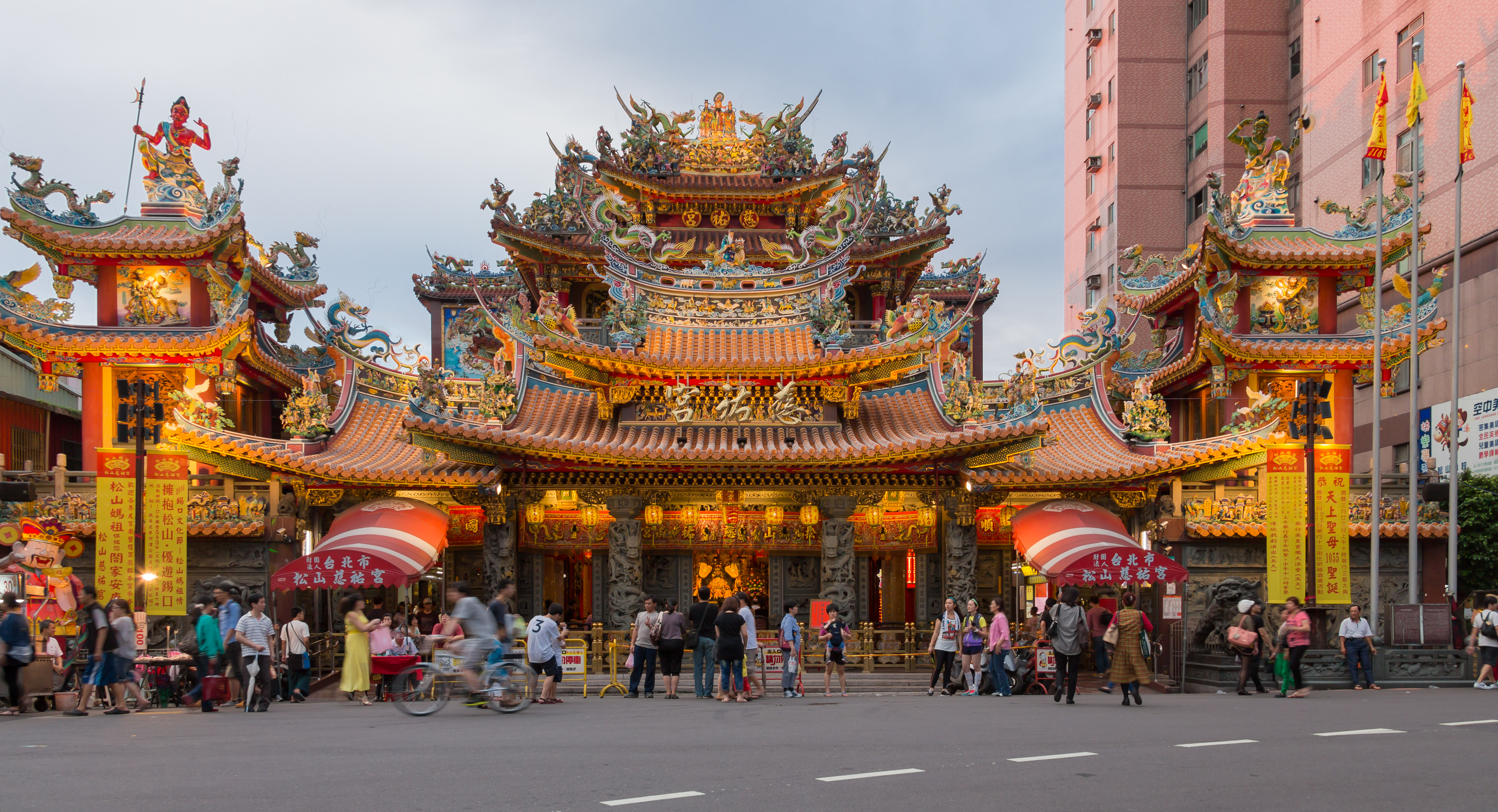 Taipei, Taiwan: Ciyou Temple in Songshan